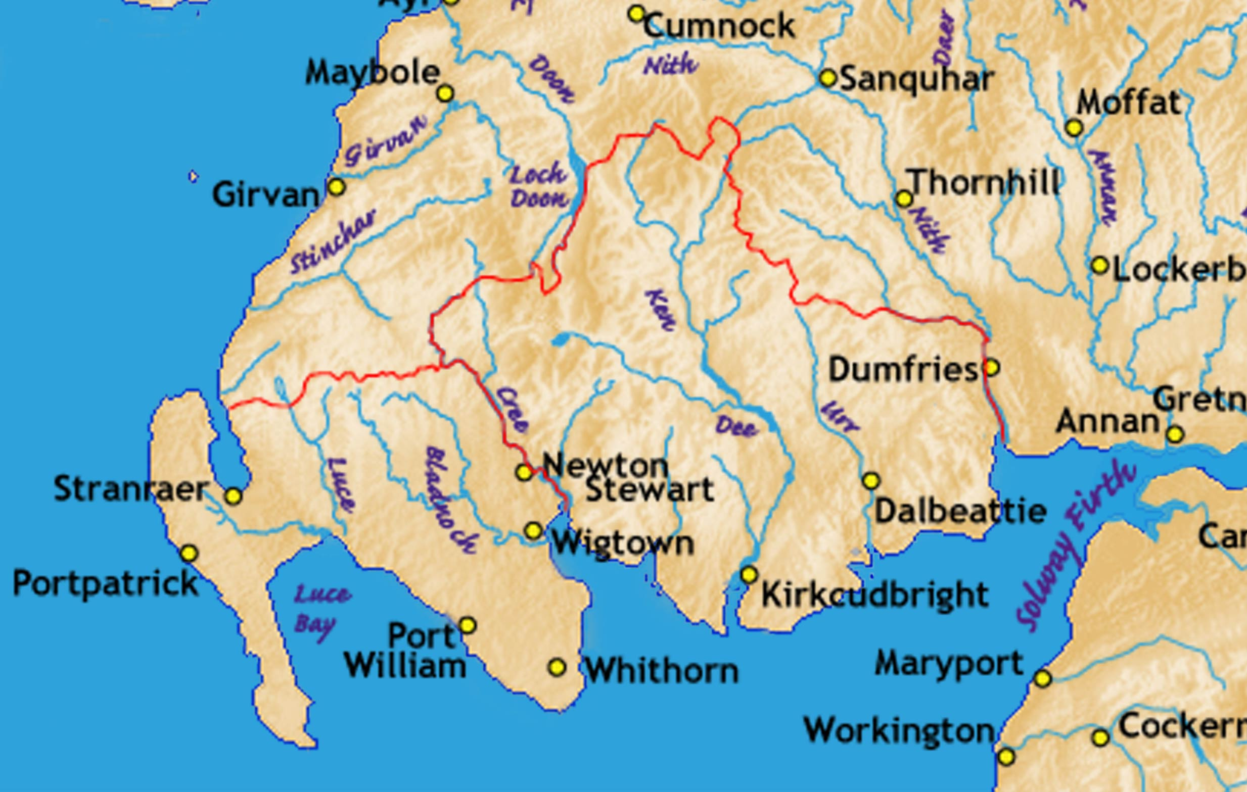 Galloway, Scotland, with rivers and some towns